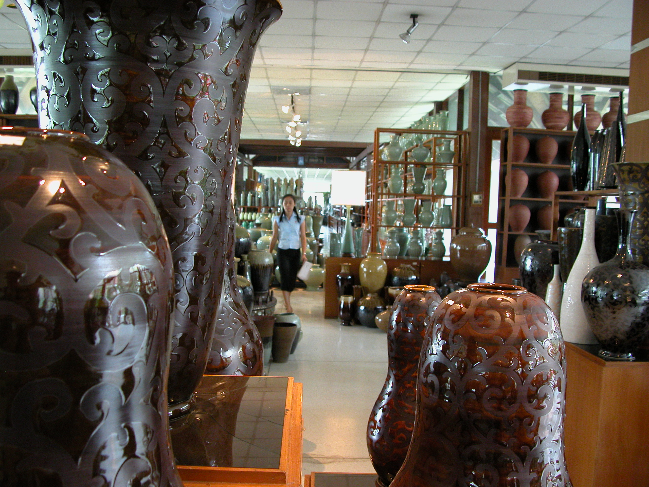 Ceramics shop in Chiang Mai, Thailand